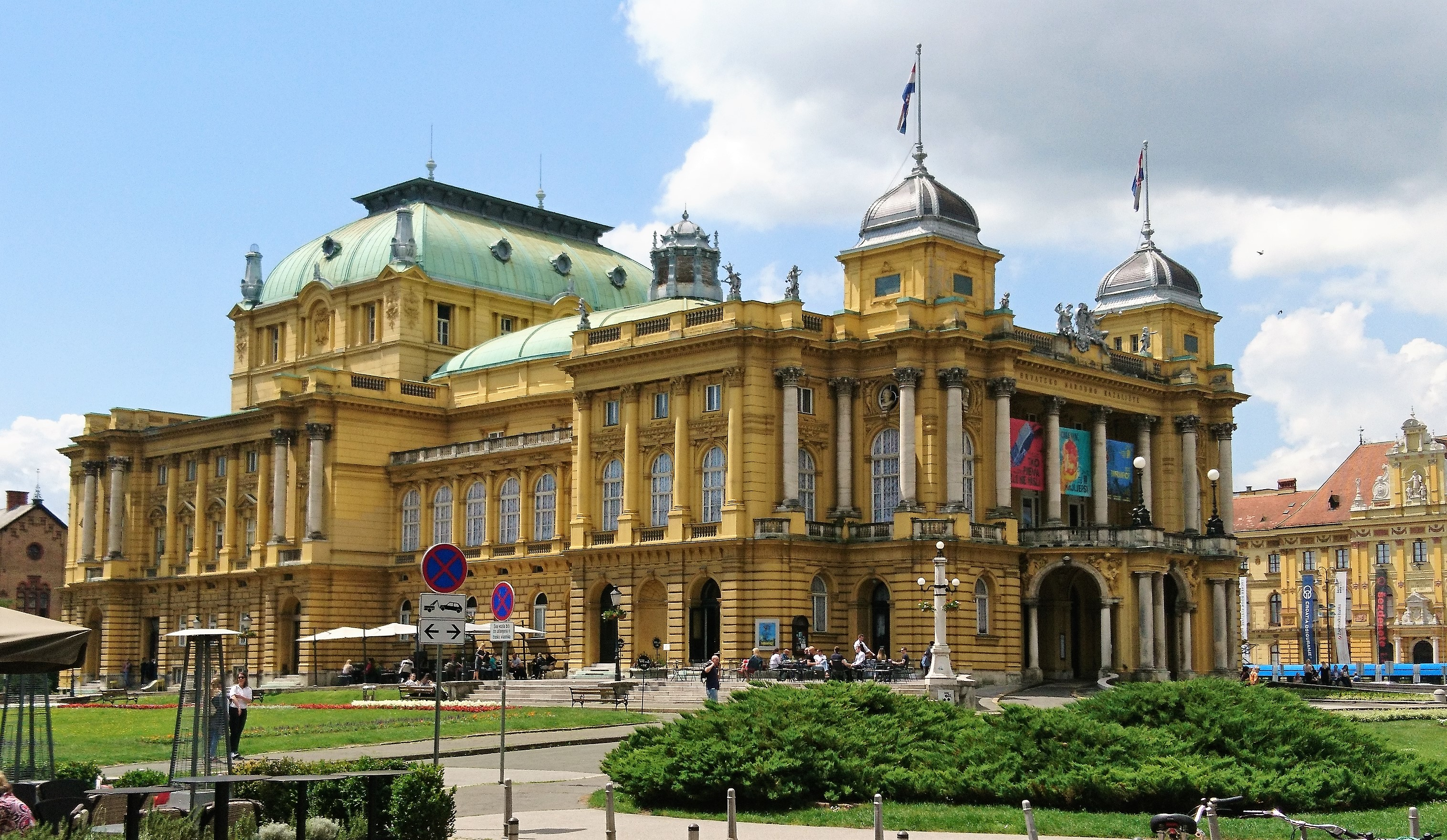 Croatian National Theater in Zagreb, Croatia